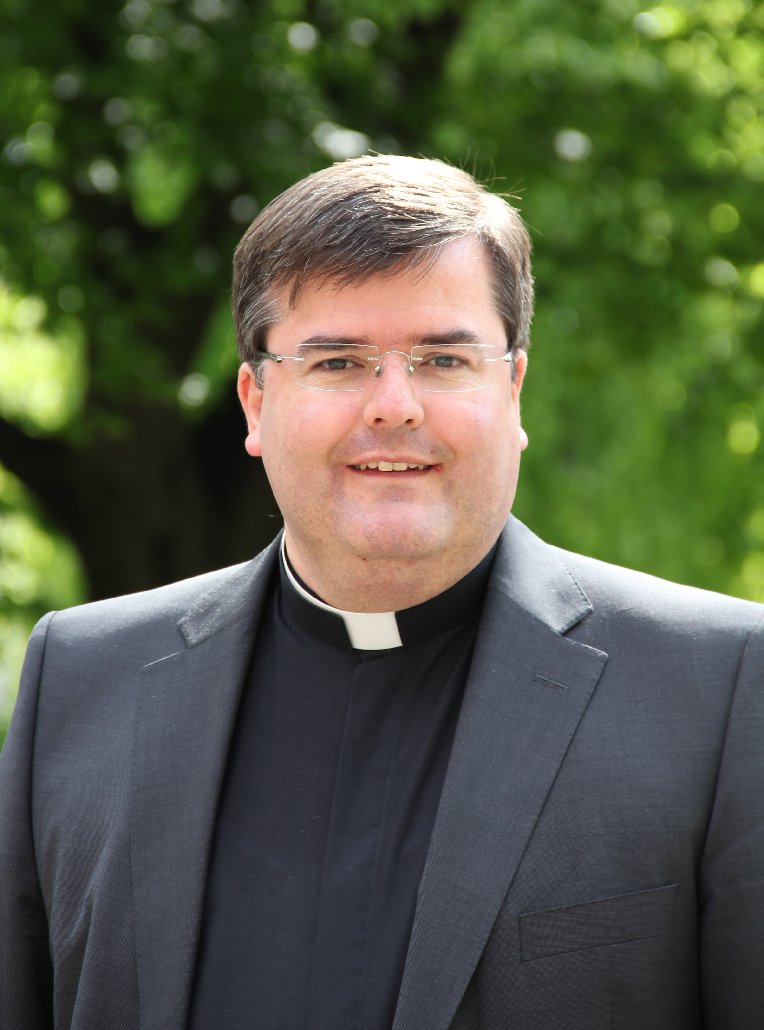 Canon Harald Heinrich, vice vicar general of the Diocese of Augsburg